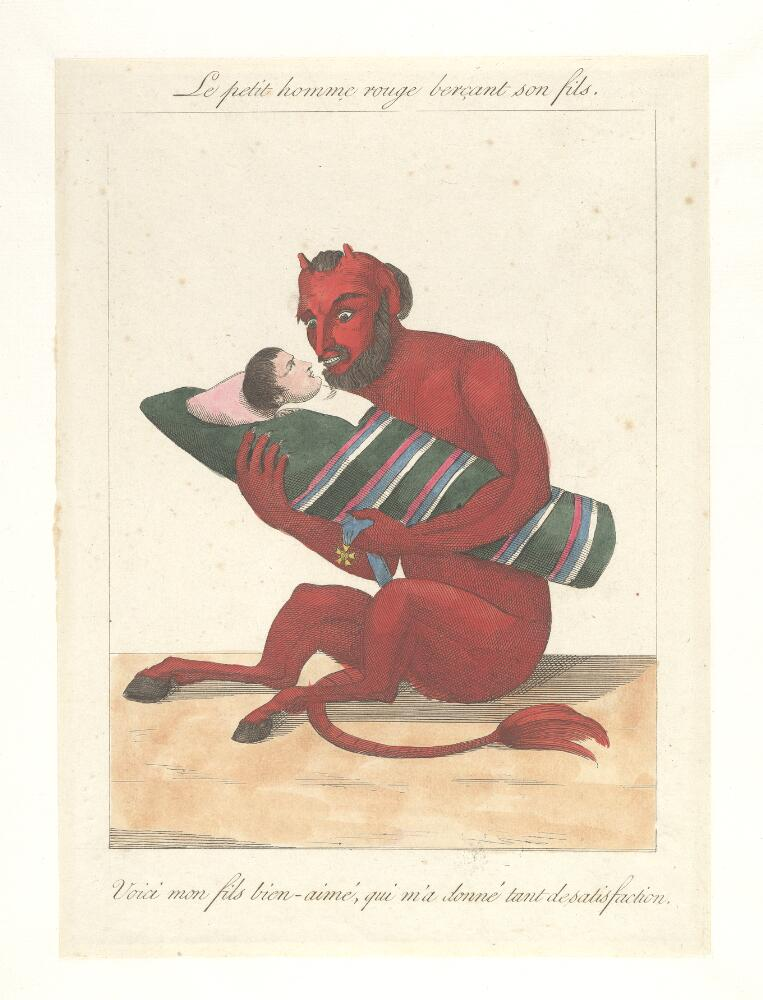 French political cartoon; References: De Vinck, No. 7815